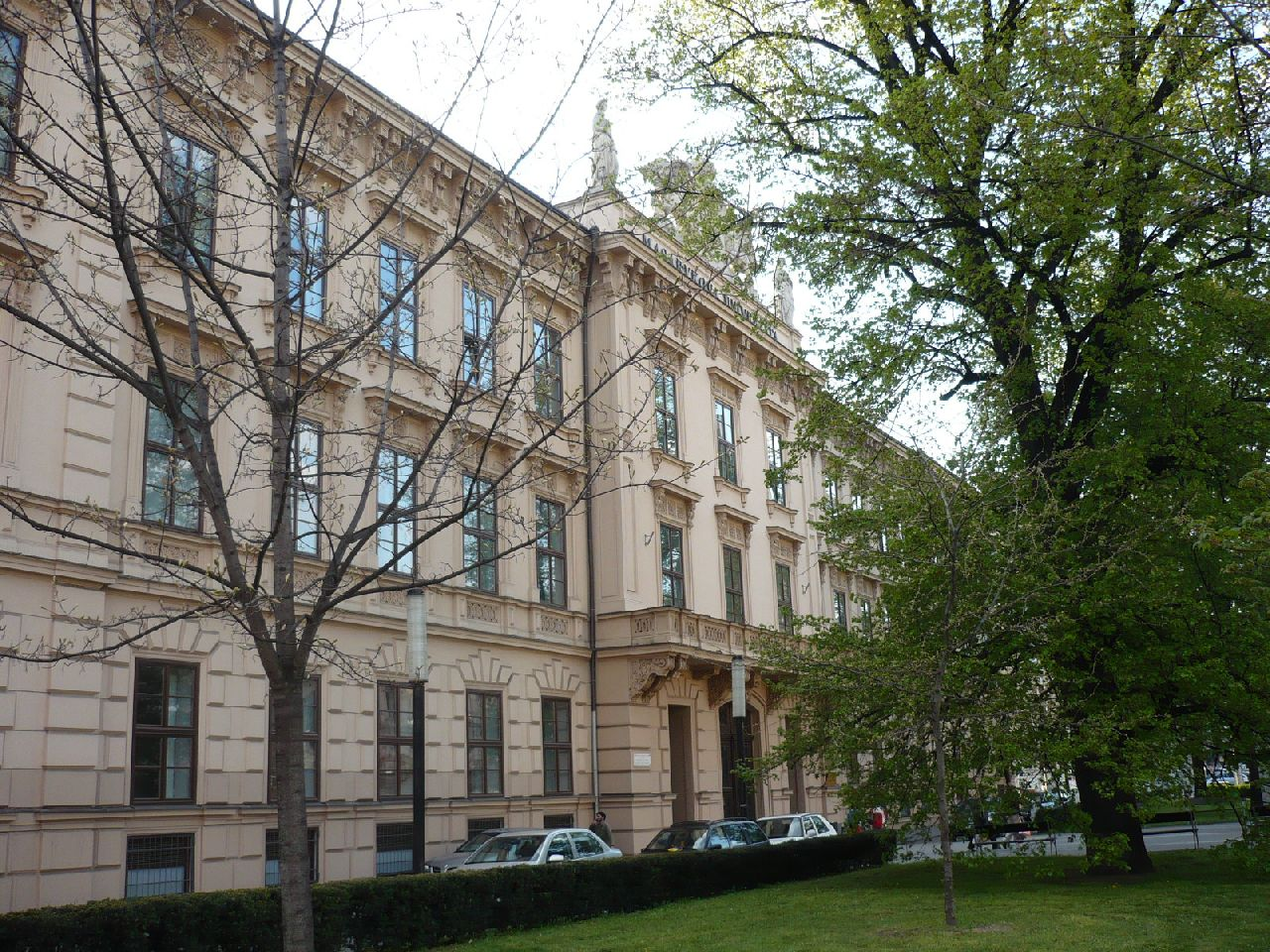 Masaryk University - Faculty of Medicine